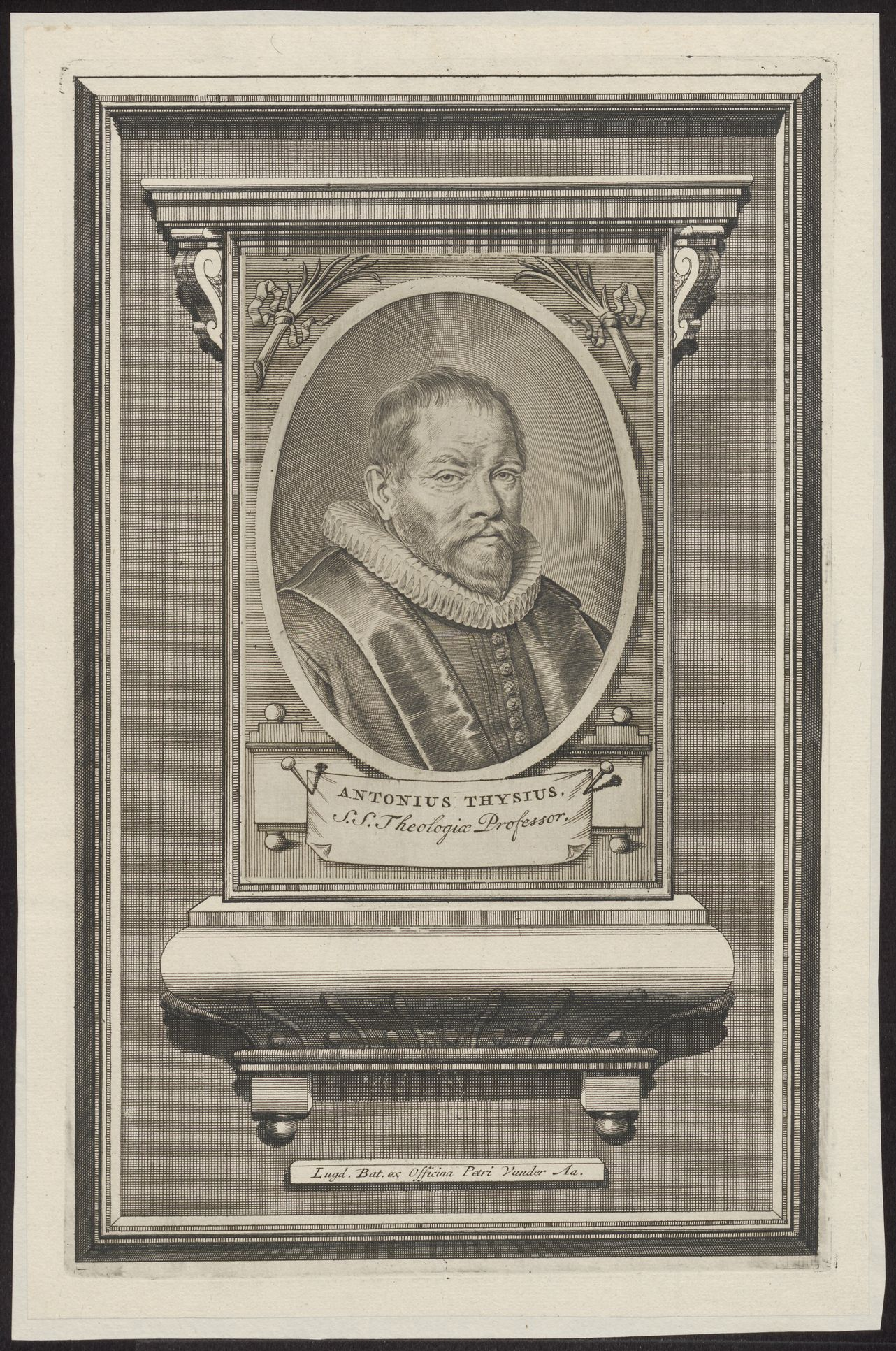 Portrait of Antonius Thysius (1565–1640), Dutch Reformed theologian.